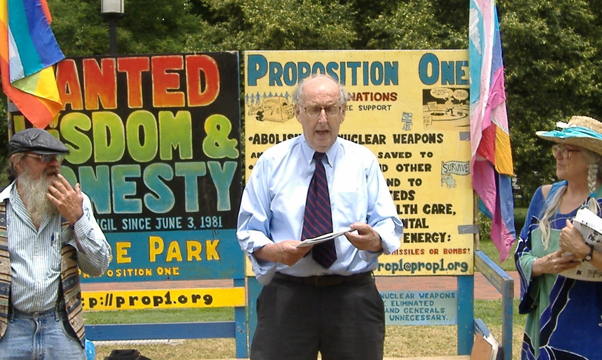 Colman McCarthy speaking at the celebration of the 25th anniversary of the 24 hour "White House Peace Vigil", June 4, 2006.